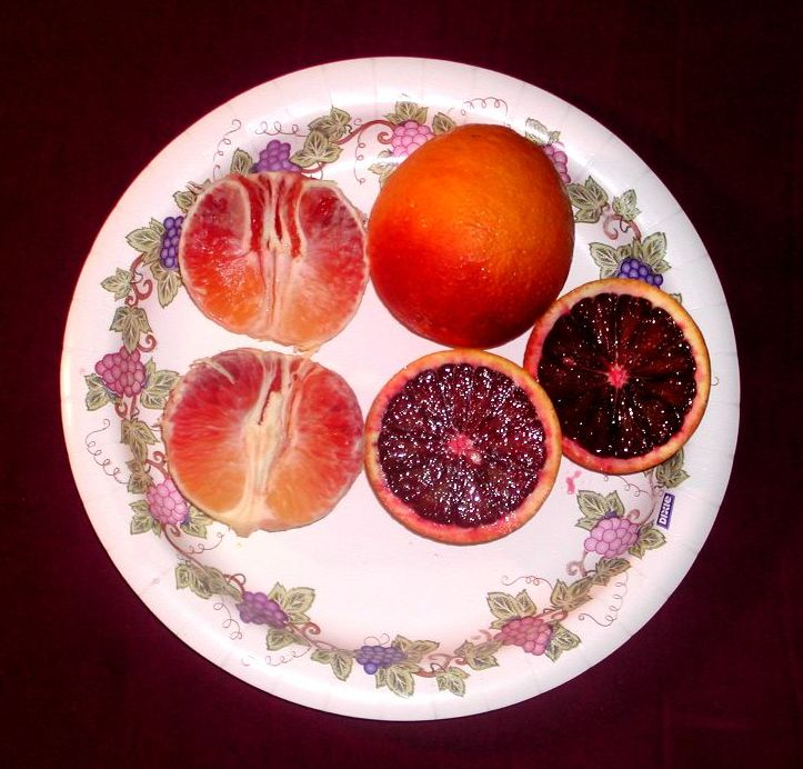 A plate filled with blood oranges